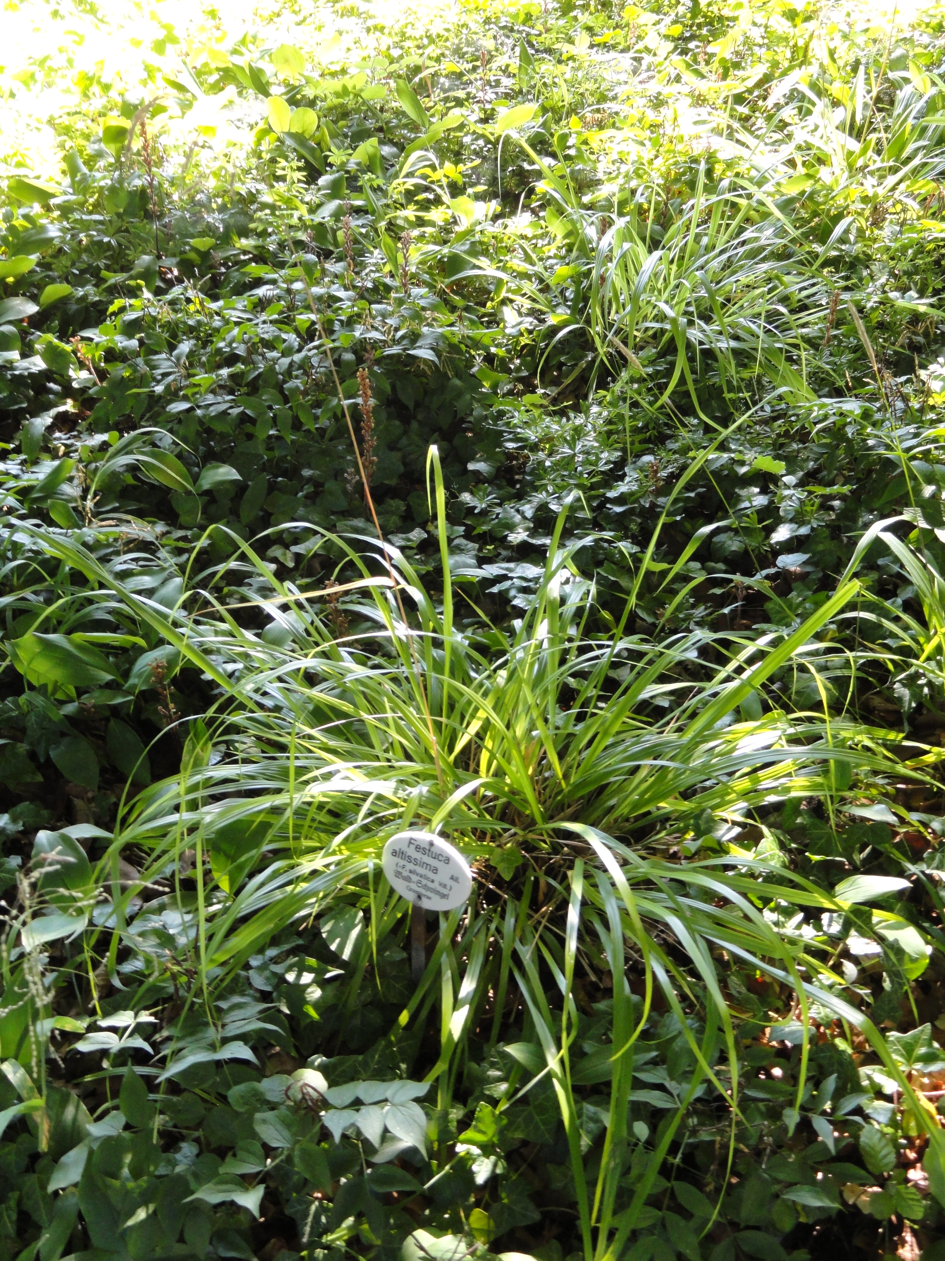 Botanical specimen in the Botanischer Garten, Frankfurt am Main, located at Siesmayerstraße 72, Frankfurt am Main, Germany.